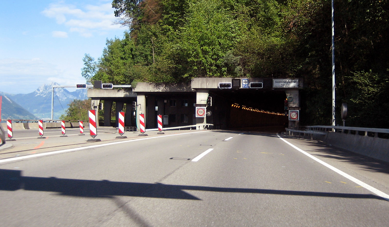 north portal of Seelisbergtunnel in Central Switzerland; Autobahn A2